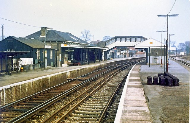 Alton Station, Hampshire.